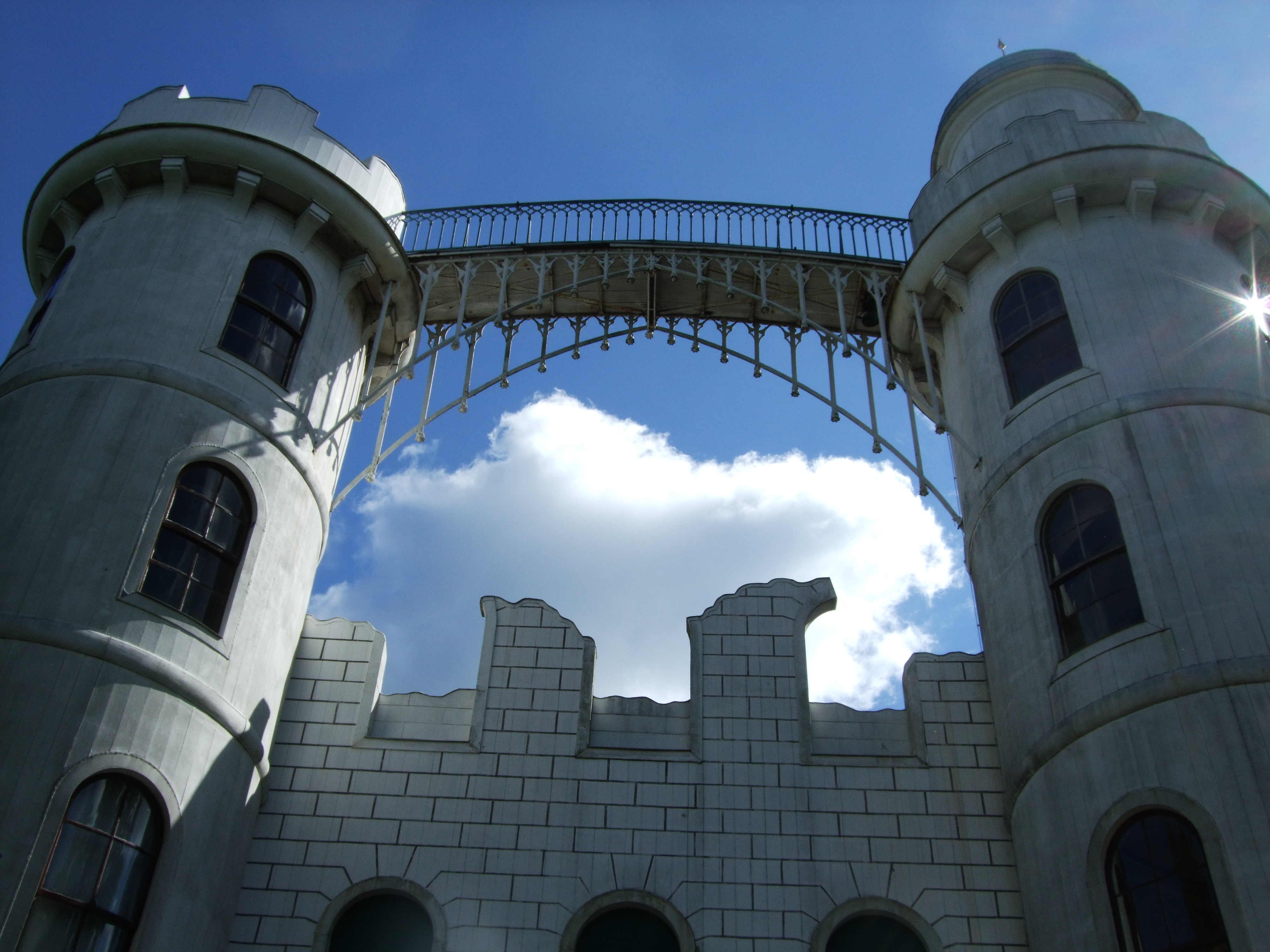 This is a photograph of an architectural monument.